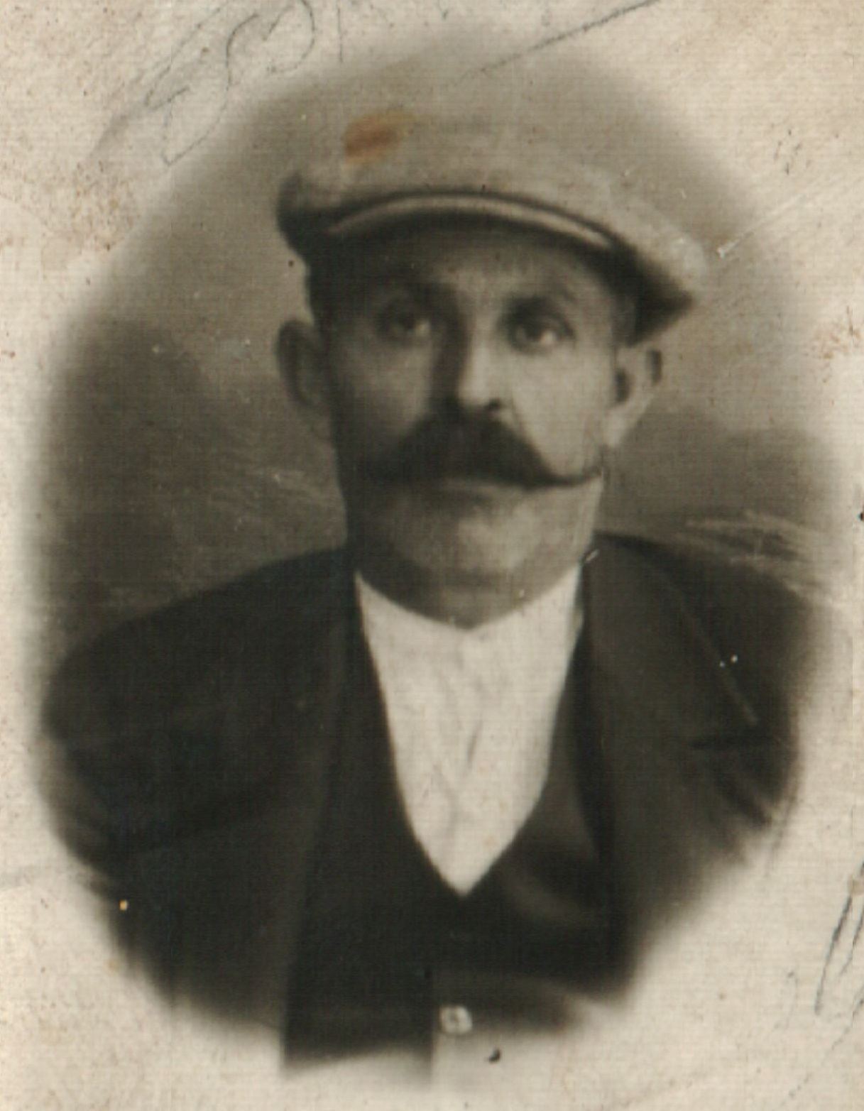 Kiro Kraev